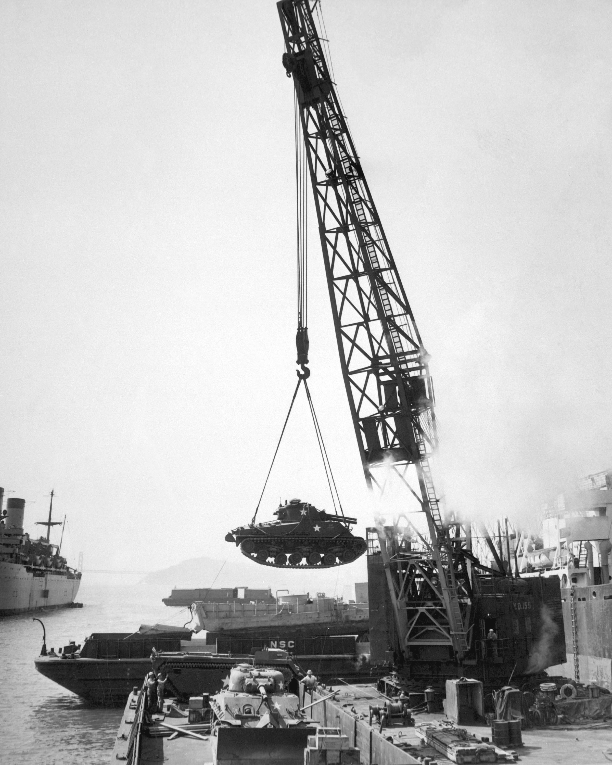 Marine Corps tanks - ready for the front lines - are swung aboard a barge at the Naval Supply Center by crane, for transhipment to our forces in the Pacific Far Eastern Command. Oakland, CA, 1950. Acme. (USIA) Exact Date Shot Unknown NARA FILE #: 306-PS-50-12226 WAR & CONFLICT BOOK #: 1403